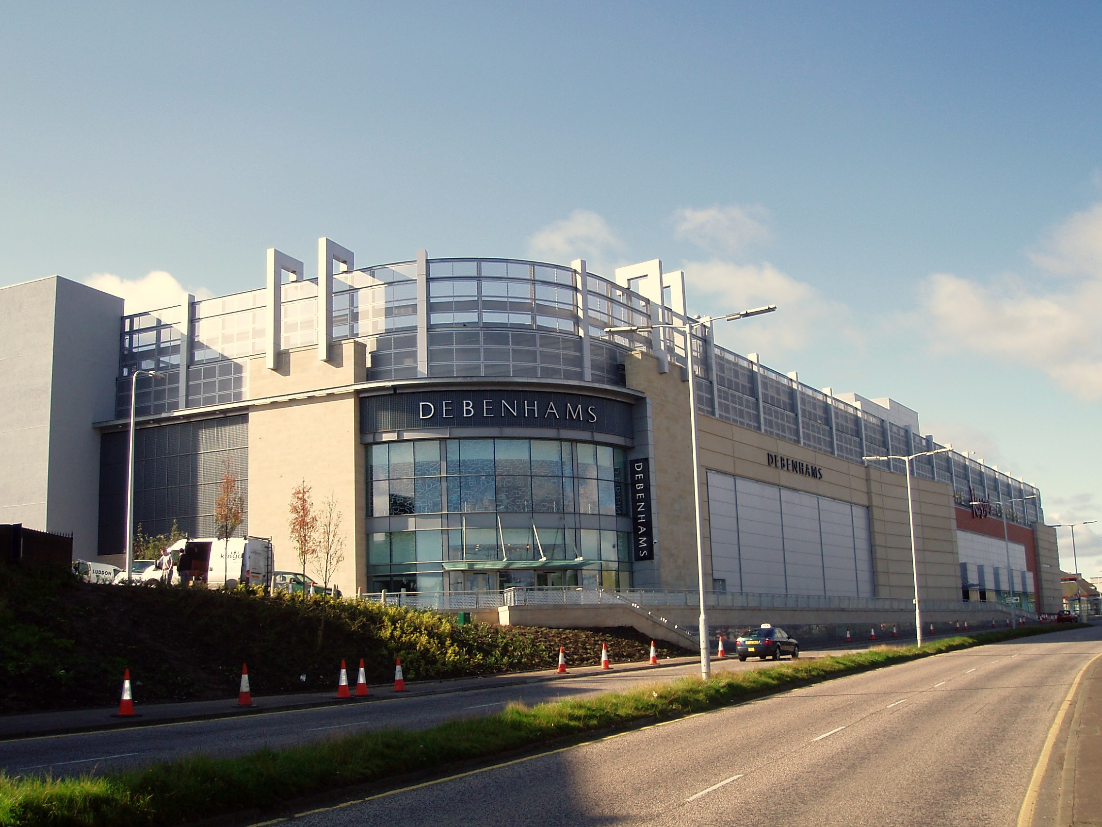 Kingsgate Shopping Centre extension, Debenhams entrance